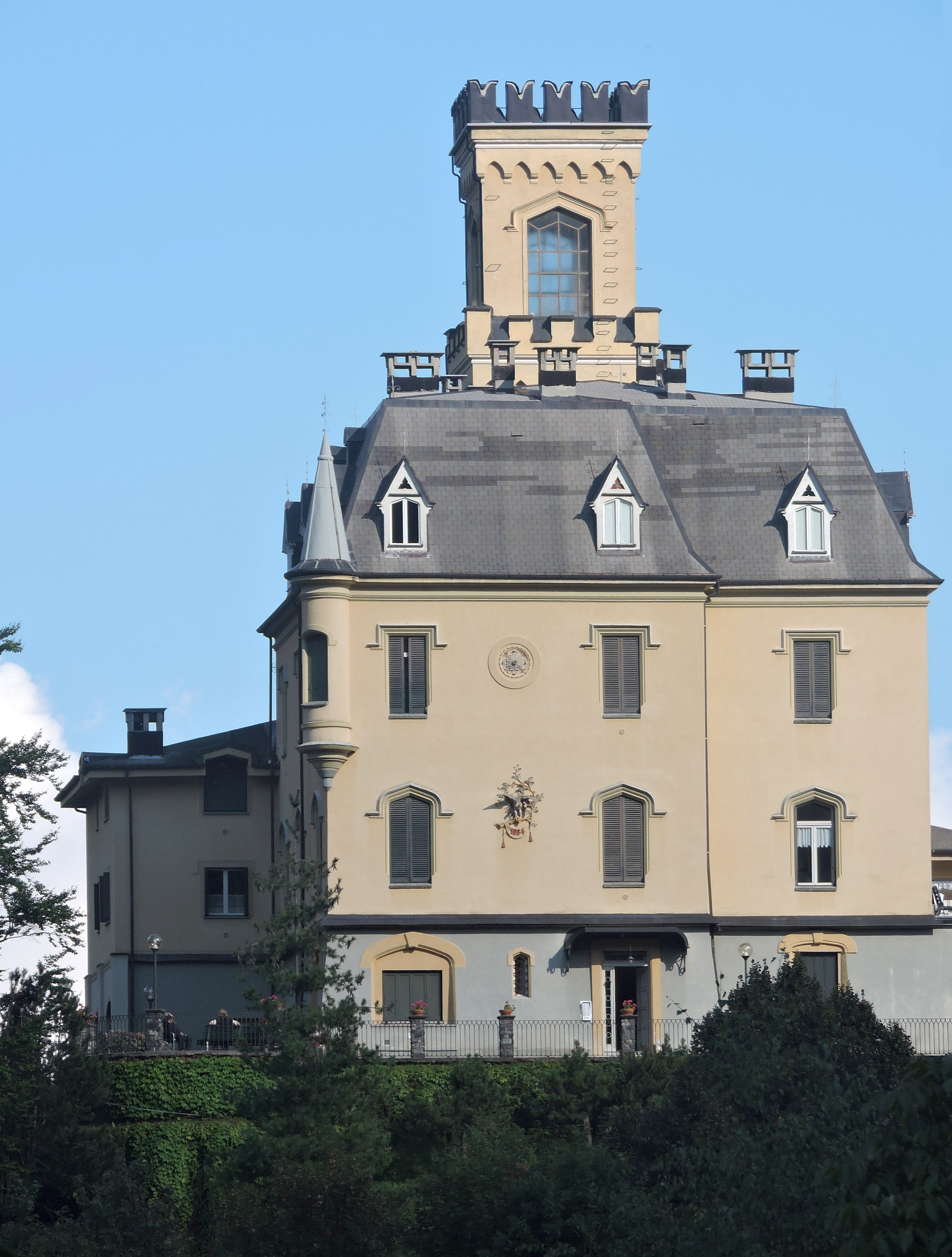 Cervatto (VC, Italy): villa Montaldo